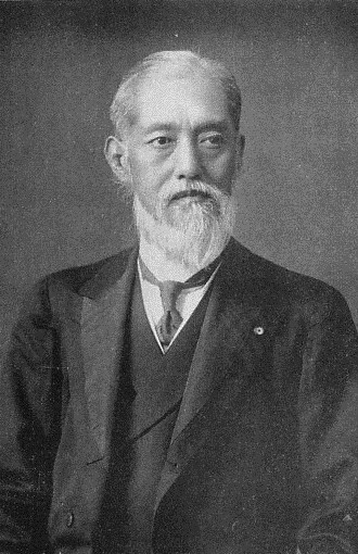 Tadabumi Torii